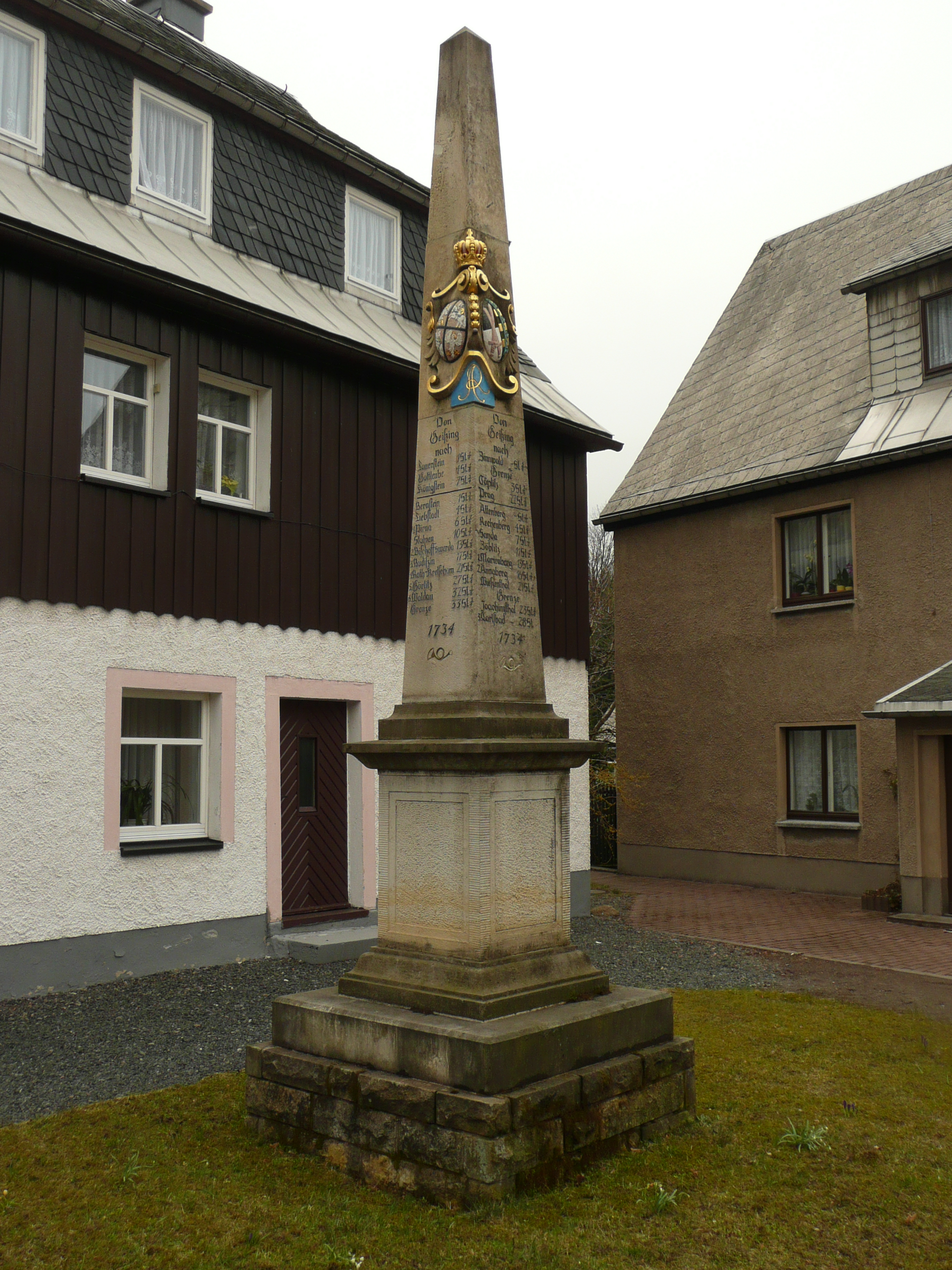 This image shows the electoral saxonian postal distance column from 1734 in Geising.